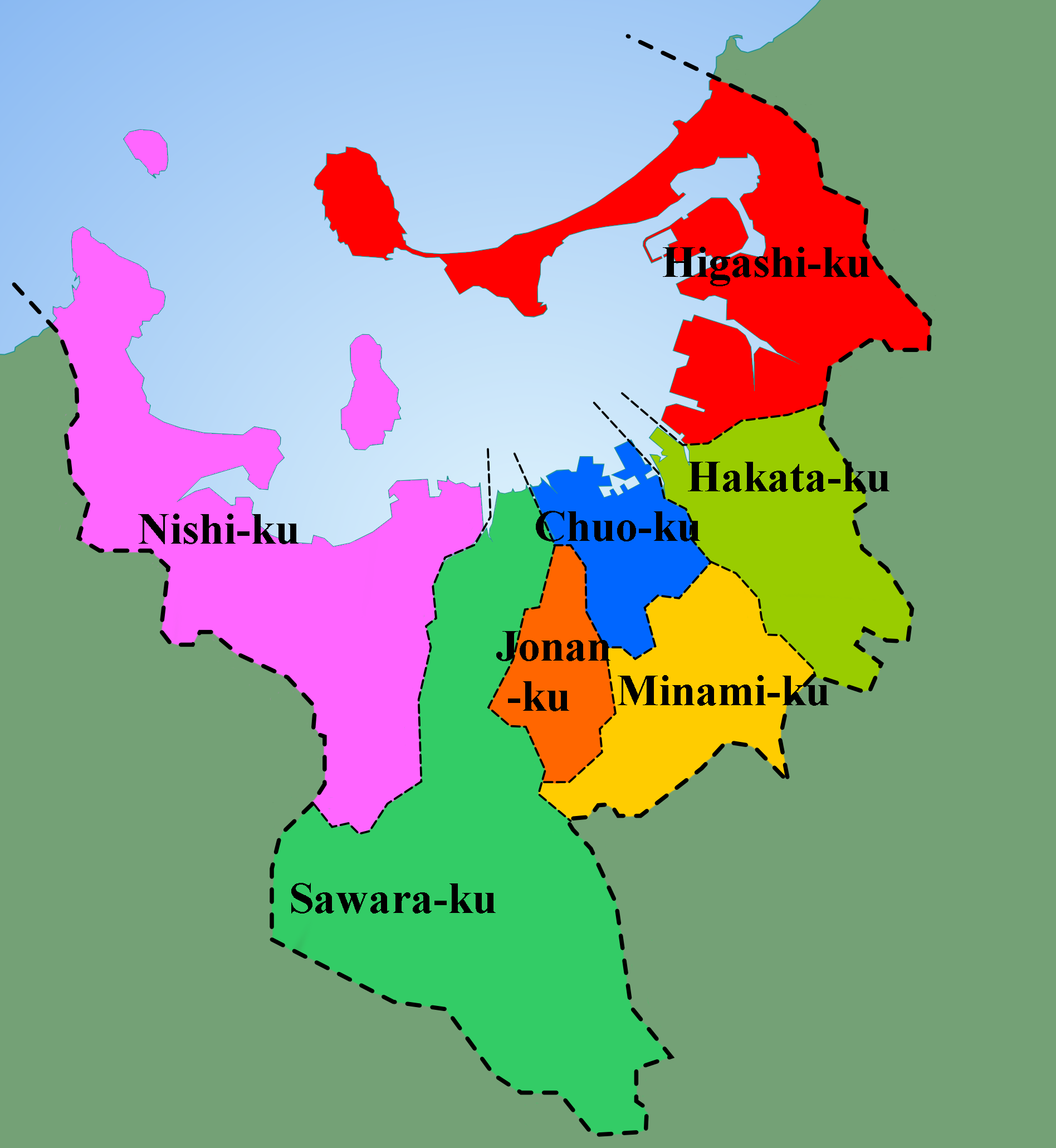 Wards of Fukuoka (Fukuoka Prefecture), Japan